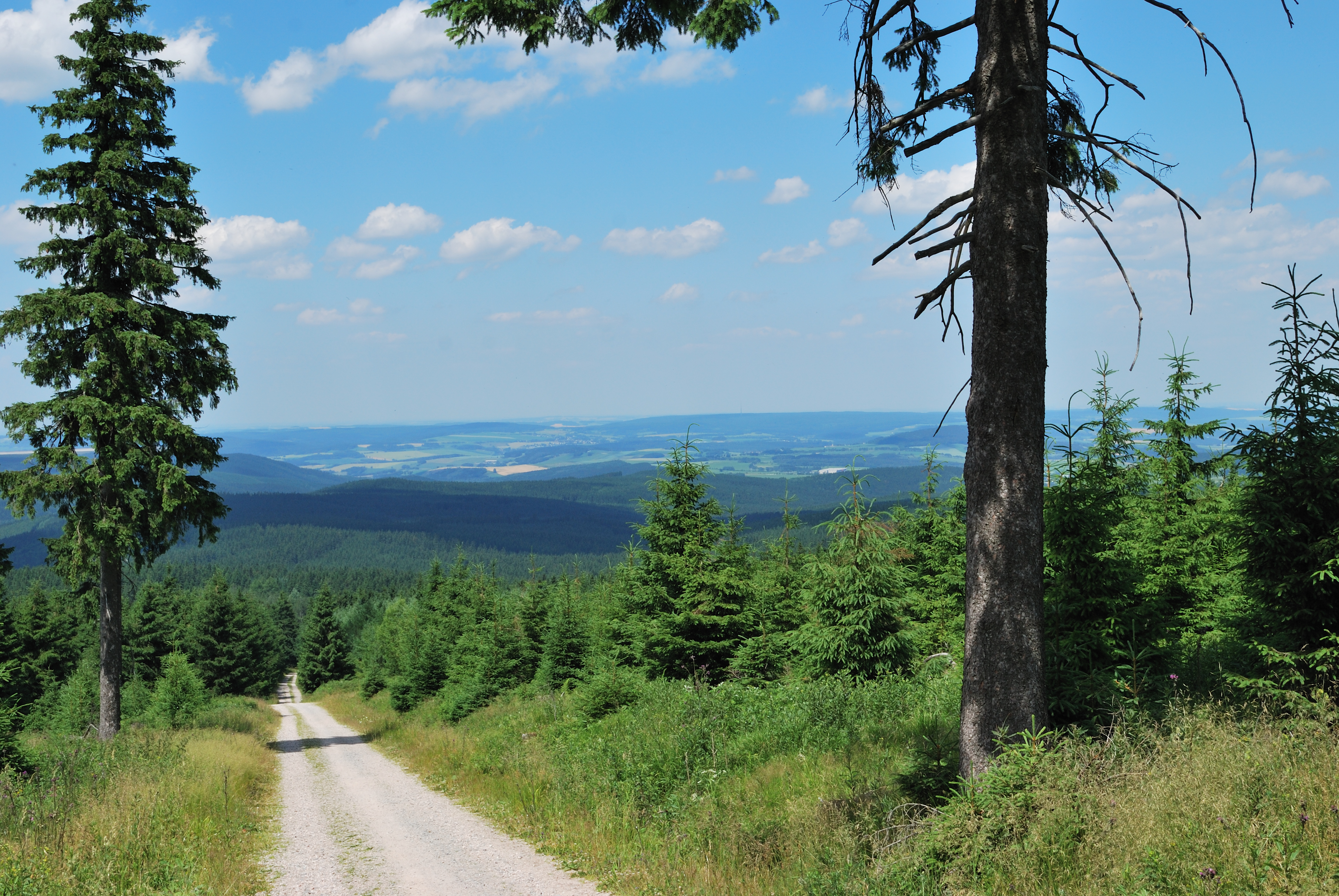 Descent from the Fichtelberg. View in northern direction to Crottendorf. Saxony in Germany.